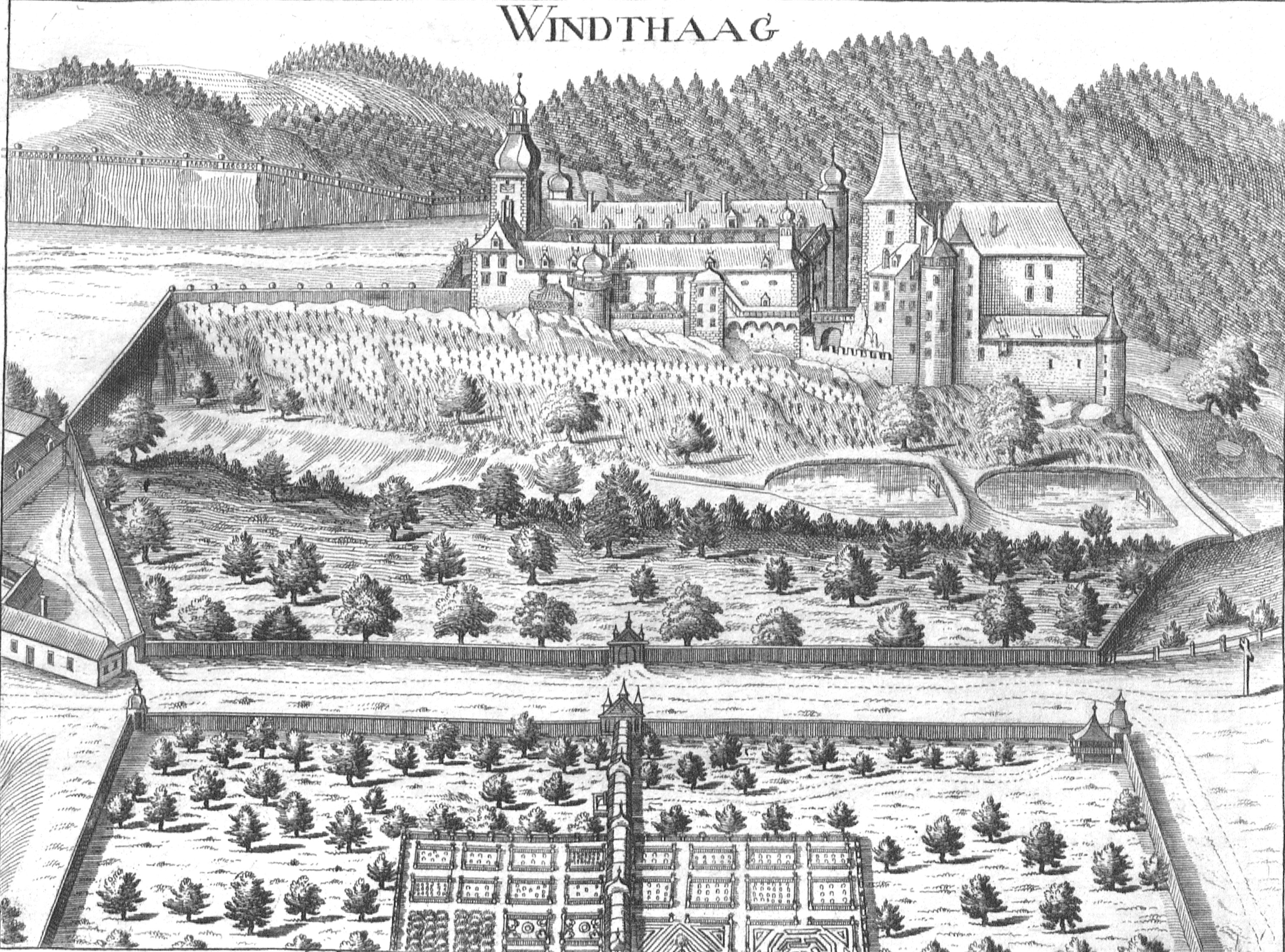 Castle Windhaag/Perg in Upper Austria, drawing from M. Vischer 1674